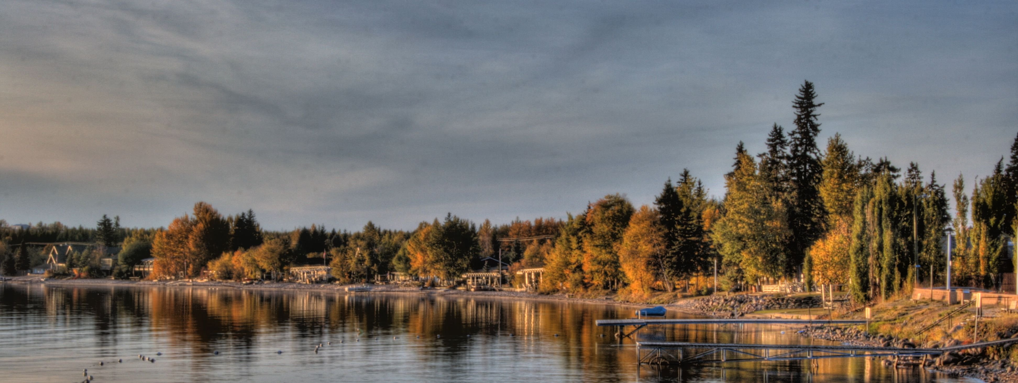 Mulhurst Bay on Pigeon Lake, Alberta, Canada.